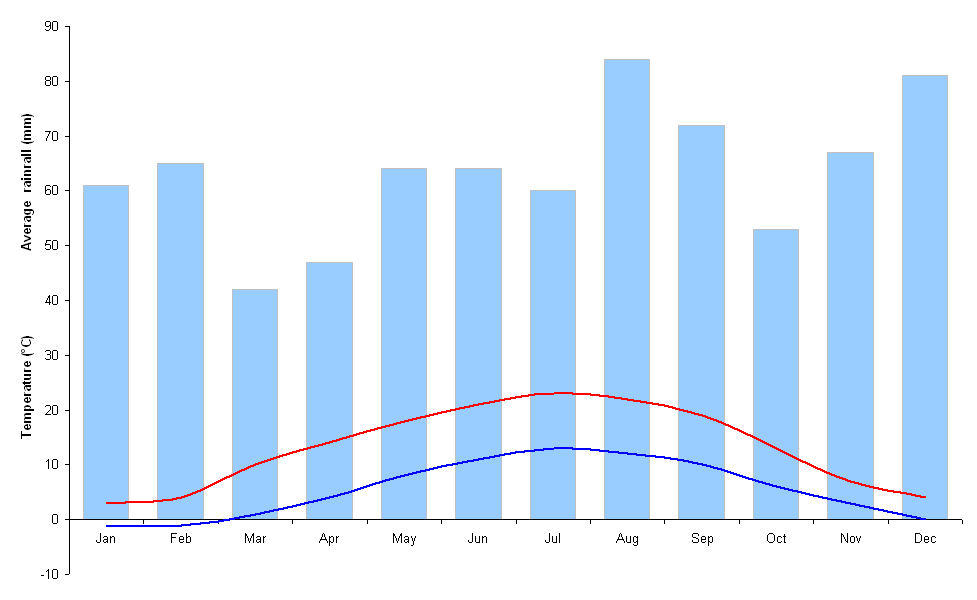 Graph illustrating Luxembourg City's rainfall and maximum and minimum temperatures over the course of the year. Data from BBC Weather.